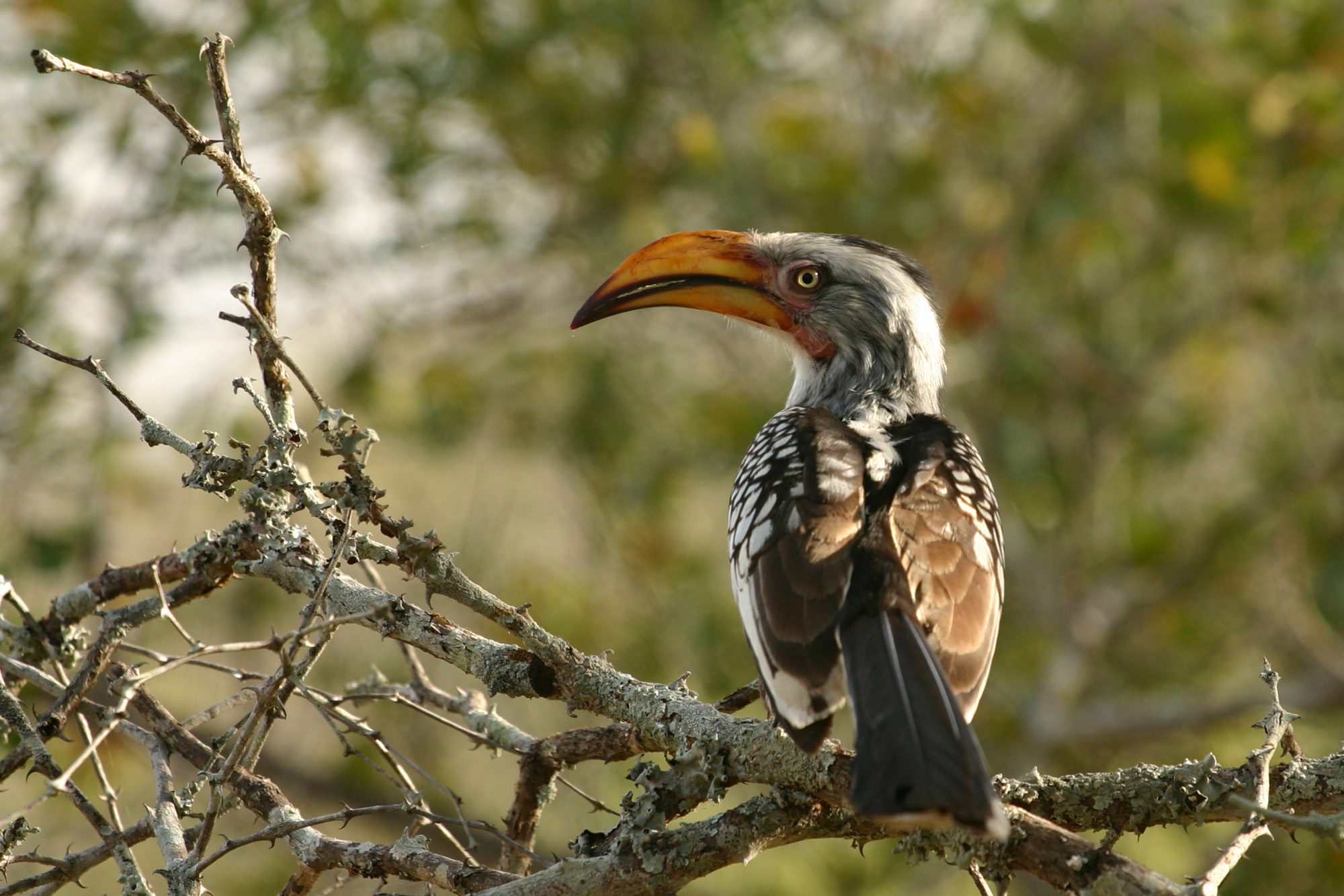 Southern Yellow-billed Hornbill (Tockus leucomelas) in Northern Sabi Sand, South Africa.